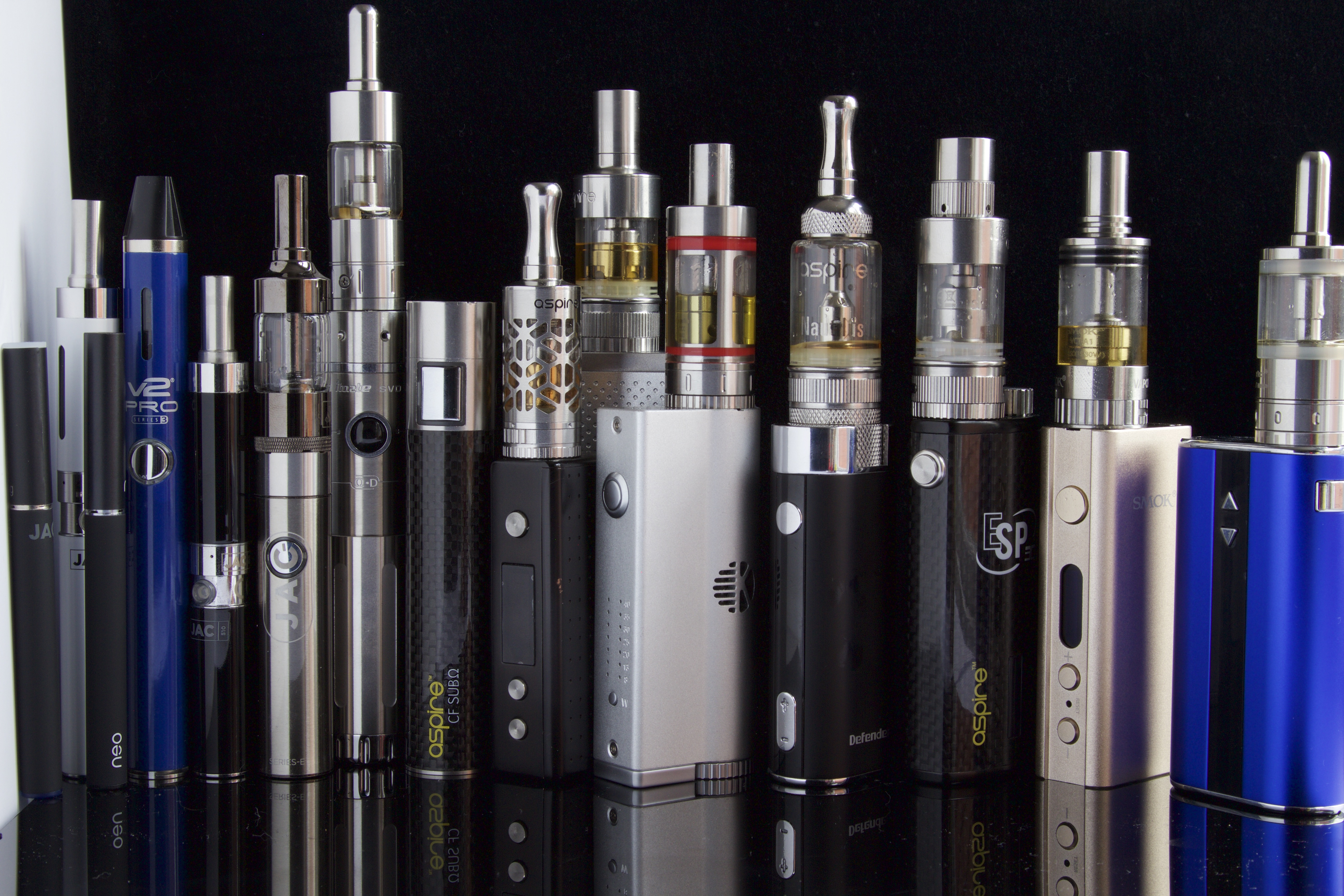 Various types of e-cigarettes